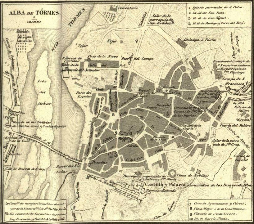 Map of Alba de Tormes cropped from the 1867 province of Salamanca map by Francisco Coello